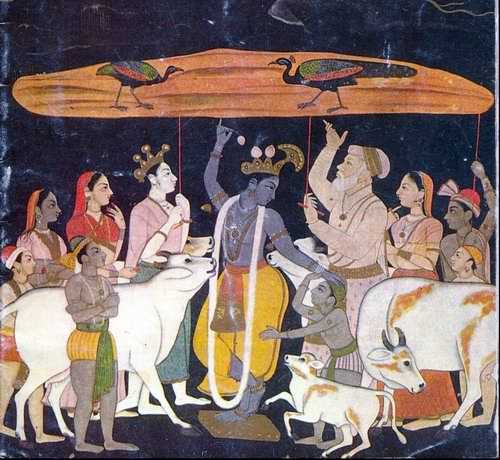 A painting by Mola Ram, illustrating the familiar episode of Krishna lifting Govardhana mountain to protect people and animals from torrential rain. Paraphrasing description from [1]: "In centre, Krishna holds the Mountain Govardhana with the little finger of his right hand. His left hand rests on the head of a frightened cowherd boy. Nanda, Krishna's foster-father, to the right, is dressed like a Mughal Courtier in Peshwaj and turban; his beard is also like that of Mughal aristocrats. Balarama, tall and fair, stands next to Krishna. There are four frightened cows and a calf. The two peacocks on the mountain represent the avian world. The legend as given in the Bhagavata Purana tells of Krishna the Savior who protected the cowherds and the people of the country around Mathura from the fury of Indra, the god of rain, by lifting the mountain Govardhana above their heads as an umbrella. Indra was angry because Krishna had persuaded the cowherds to abandon the worship of Indra. Krishna says: 'We are dwellers of the woods and it is mountains and forests that nourish us. He who nourishes us, His worship alone is proper'."